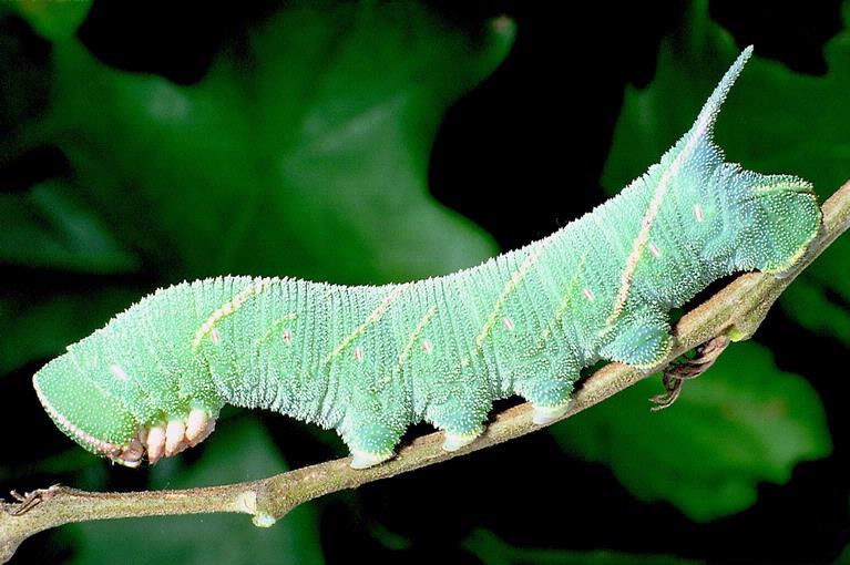 Larva of Marumba quercus from Hungary